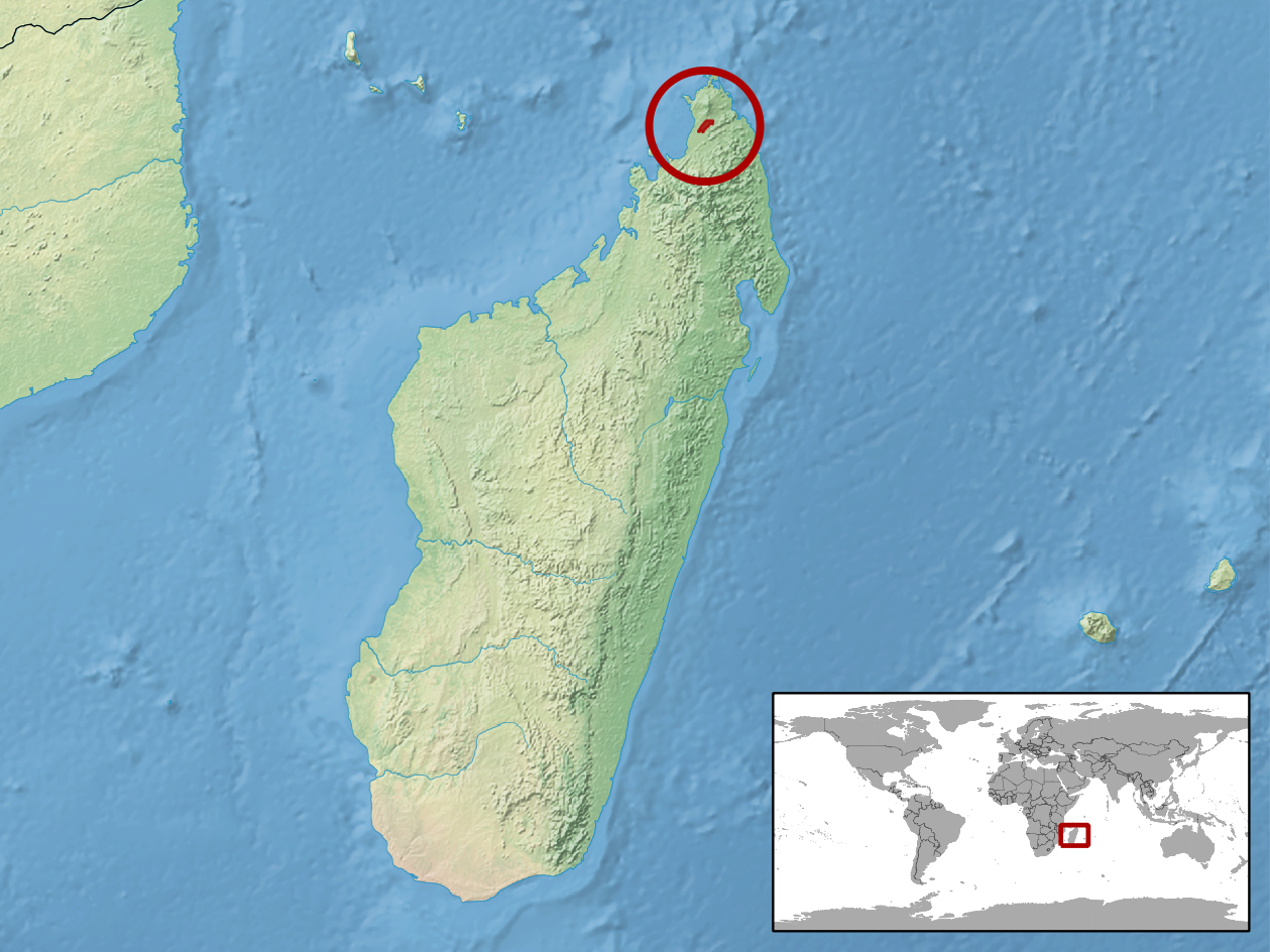 geographic distribution of Lygodactylus rarus (Native: Madagascar)